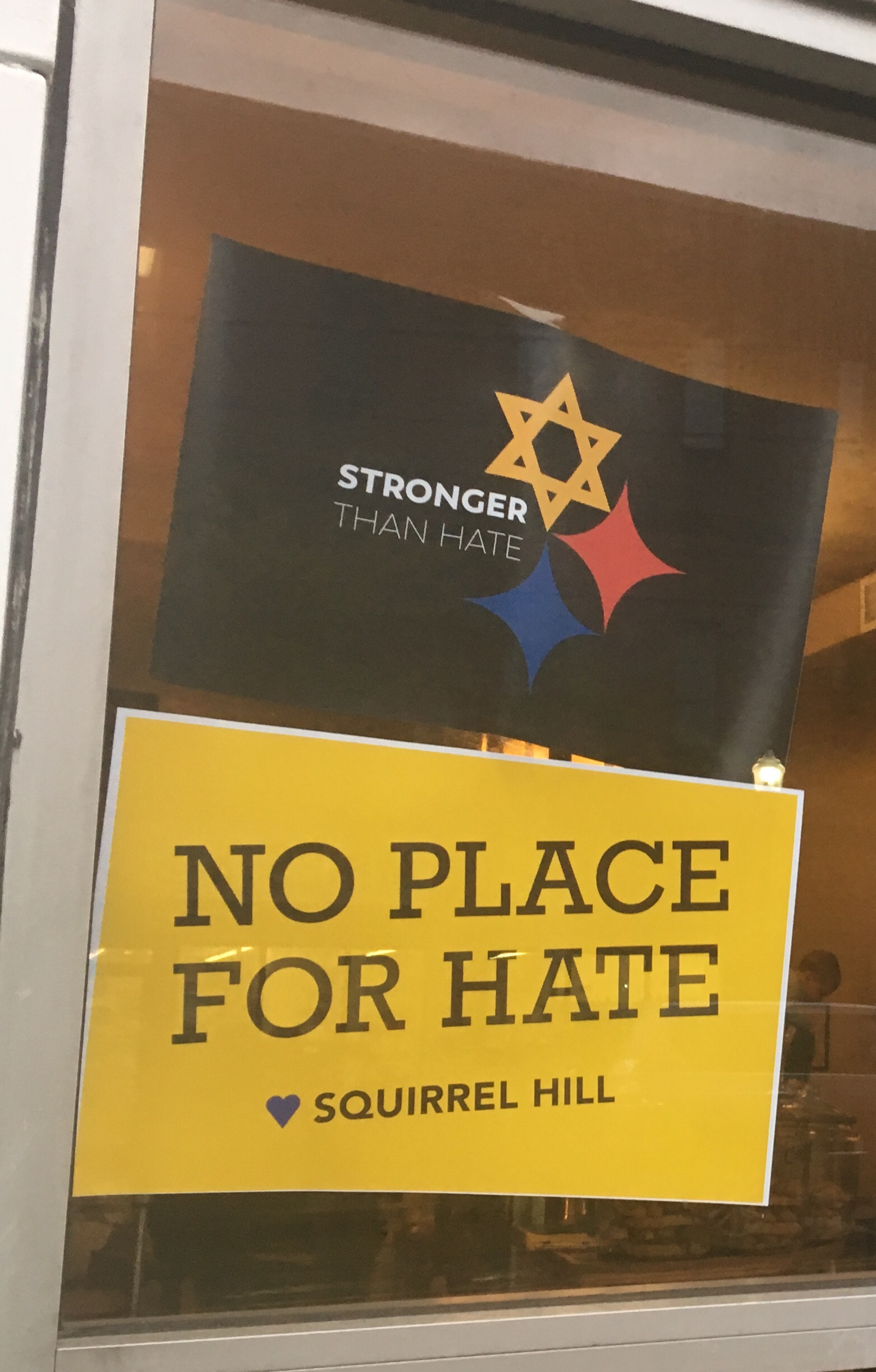 Posters on the window of a coffee shop on Murray Avenue at Squirrel Hill, in response to the Pittsburgh synagogue shooting.